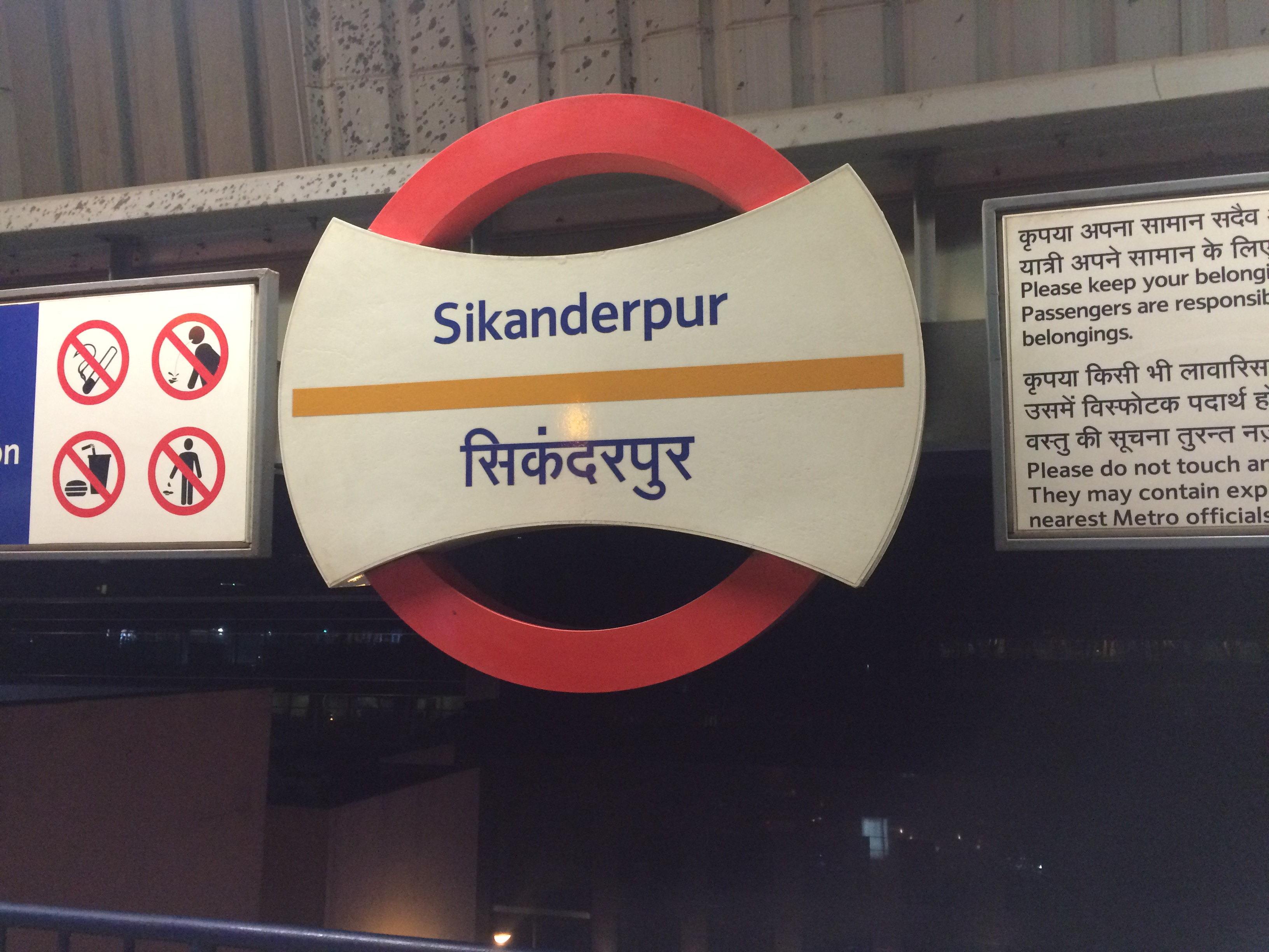 Sikandarpur metro station